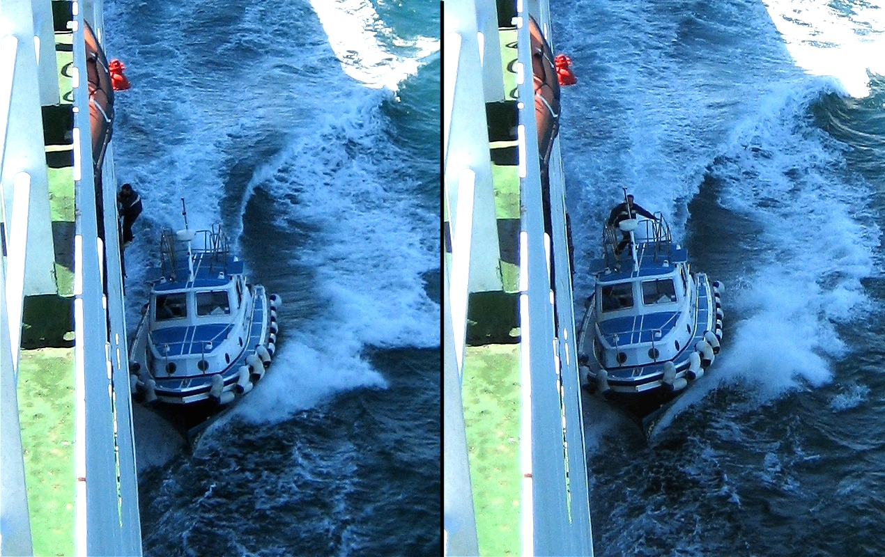 The pilot is leaving the ferry-boat "Ionian Sky" after guiding her out of the harbour of Brindisi in Italy.